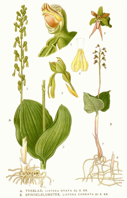 A. Listera ovata (L.) R.Br., B. Listera cordata (L.) R.Br. Original Description A. Tveblad, Listera ovata (L.) R. Br. B. Spindelblomster, Listera cordata (L.) R. Br.